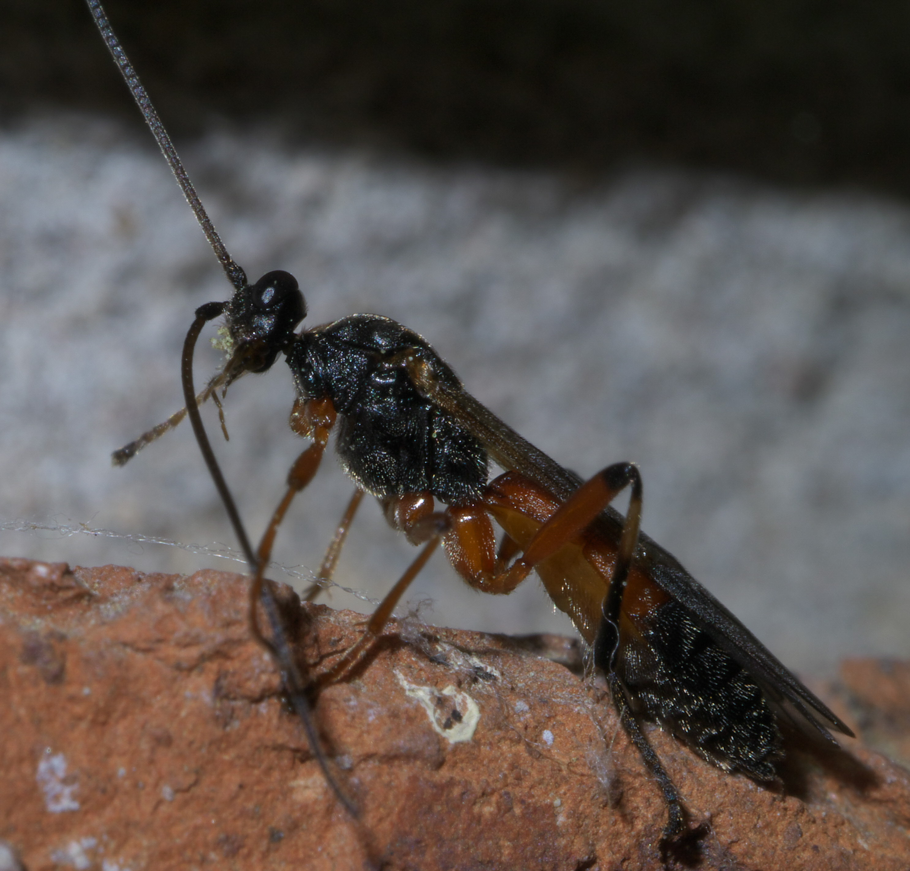 Aleiodes, mummy-wasps, Size: 8.7 mm, ID Confidence: 98